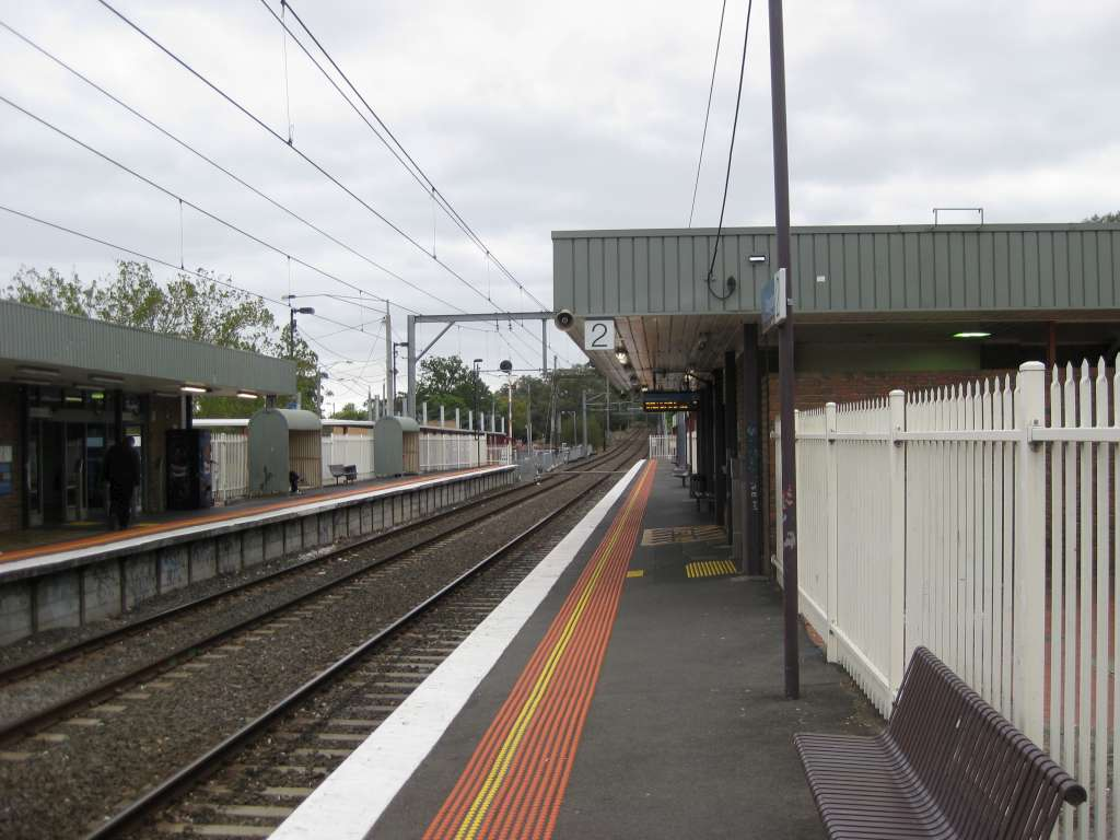 Croydon Train Station